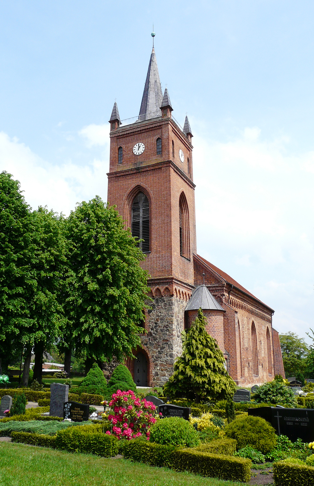 Church in Eldena, district Ludwigslust-Parchim, Mecklenburg-Vorpommern, Germany (view from southwest)